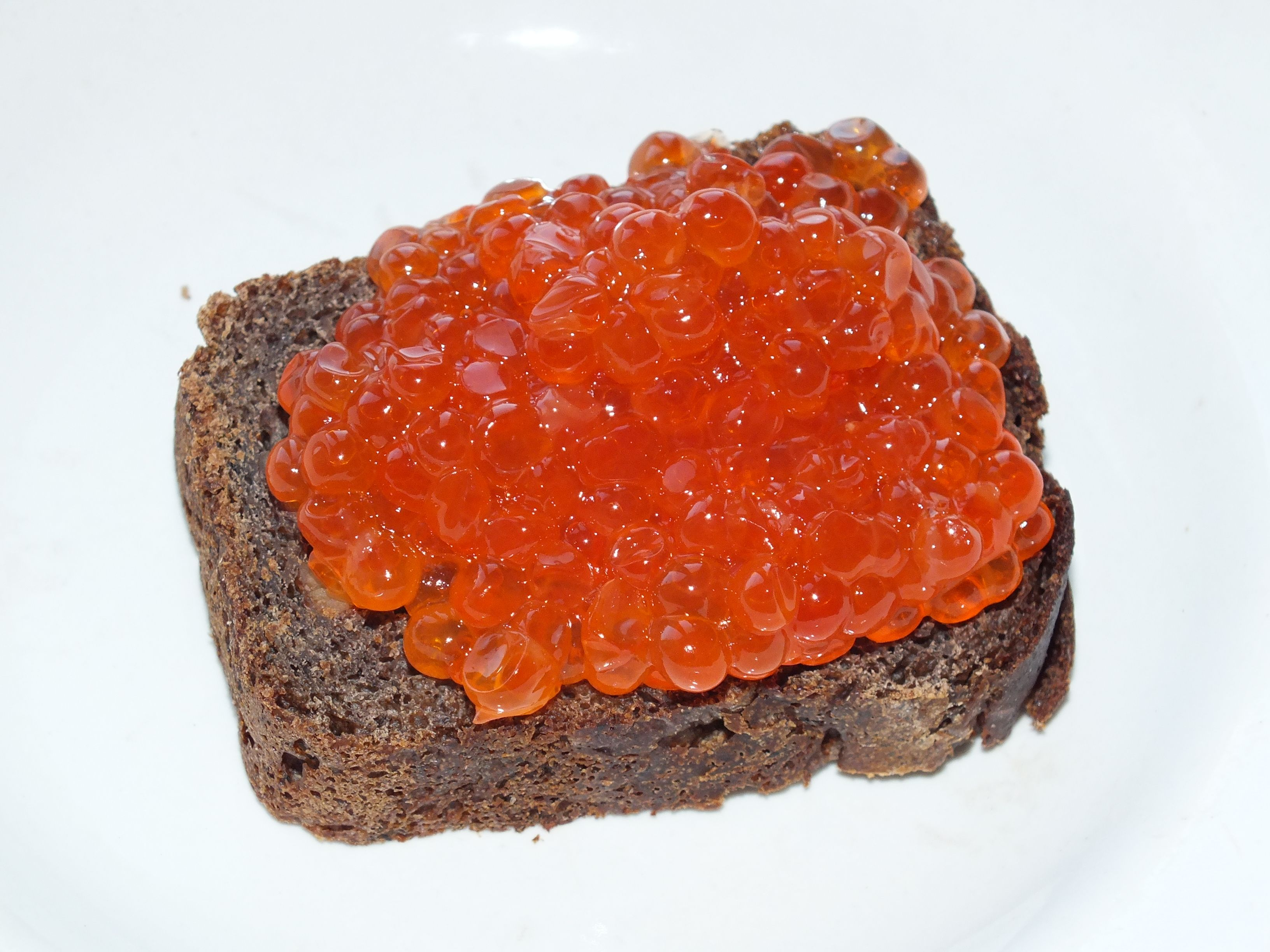 Oncorhynchus keta